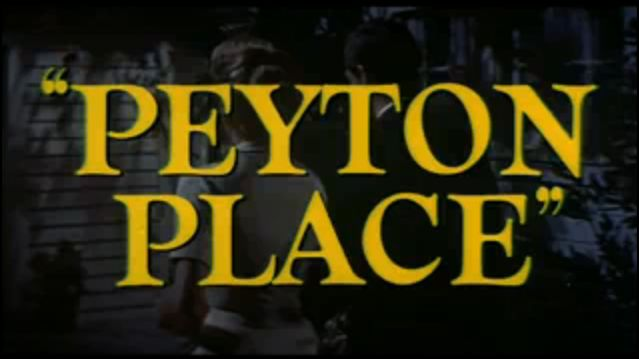 Peyton Place is a 1957 American drama film directed by Mark Robson